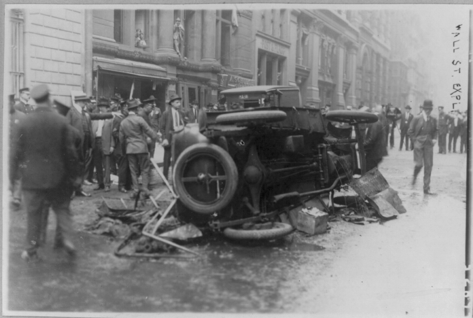 Wall Street explosion in 1920. Automobile lying on its side in foreground. A bomb exploded in front of the headquarters of J.P. Morgan Inc. at 23 Wall Street.